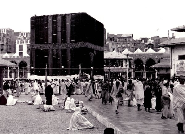 Mecca,Makkah Saudi Arabia 1937